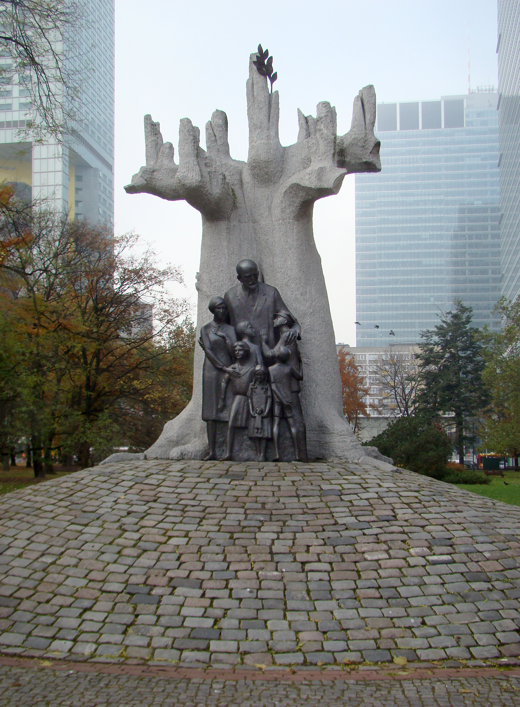 Janusz Korczak monument Warsaw